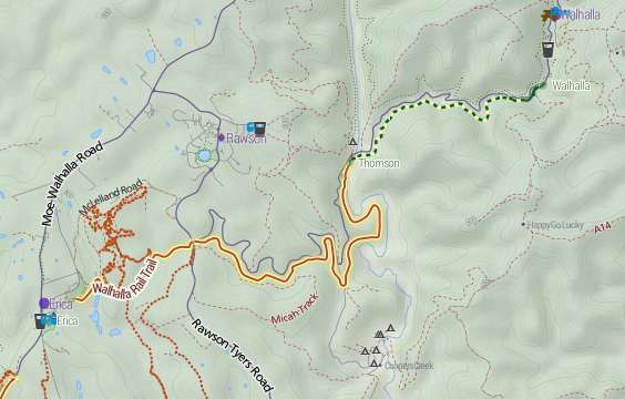 Map of Walhalla Goldfields Rail Trail. Cartography by Steve Bennett, data by OpenStreetMap contributors.